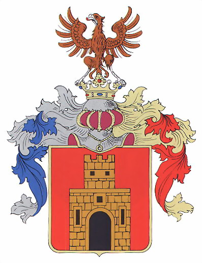 Coat of arms of county of Kingdom of Hungary